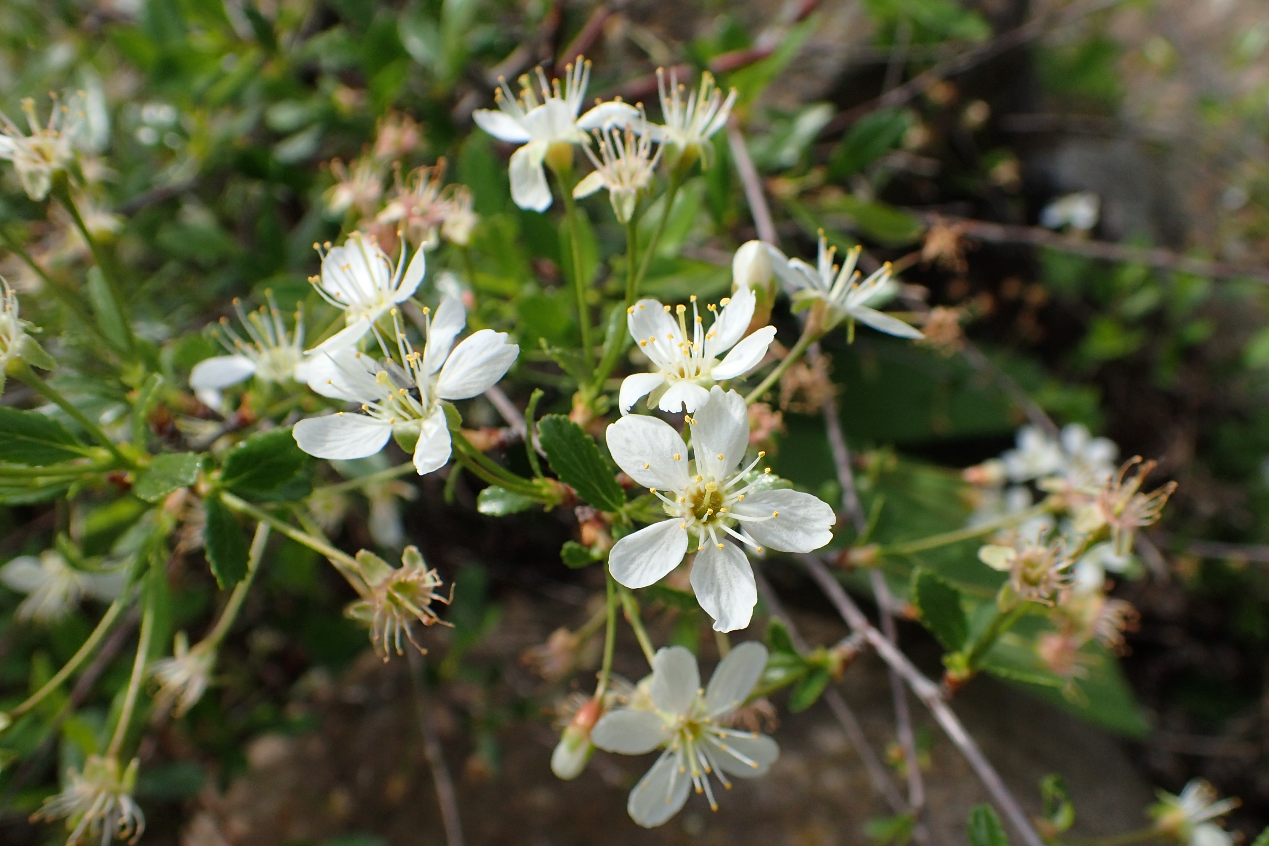 Prunus fruticosa in the Forest arboretum in Stradomia